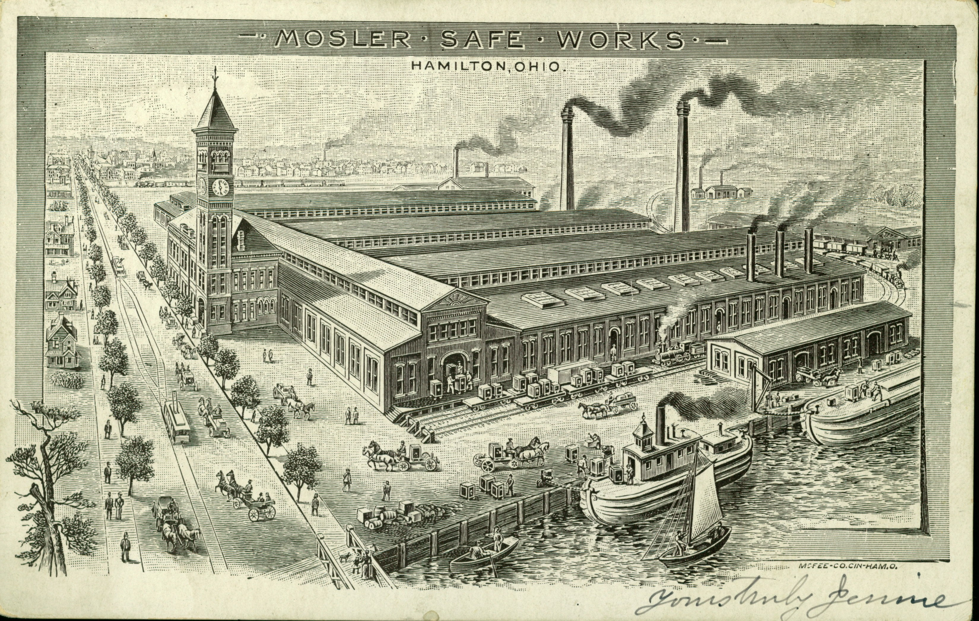 Persistent URL: Subject: Industrial facilities; Factories; Safes; Ohio--Hamilton; miami digital collections; bowden postcard collection